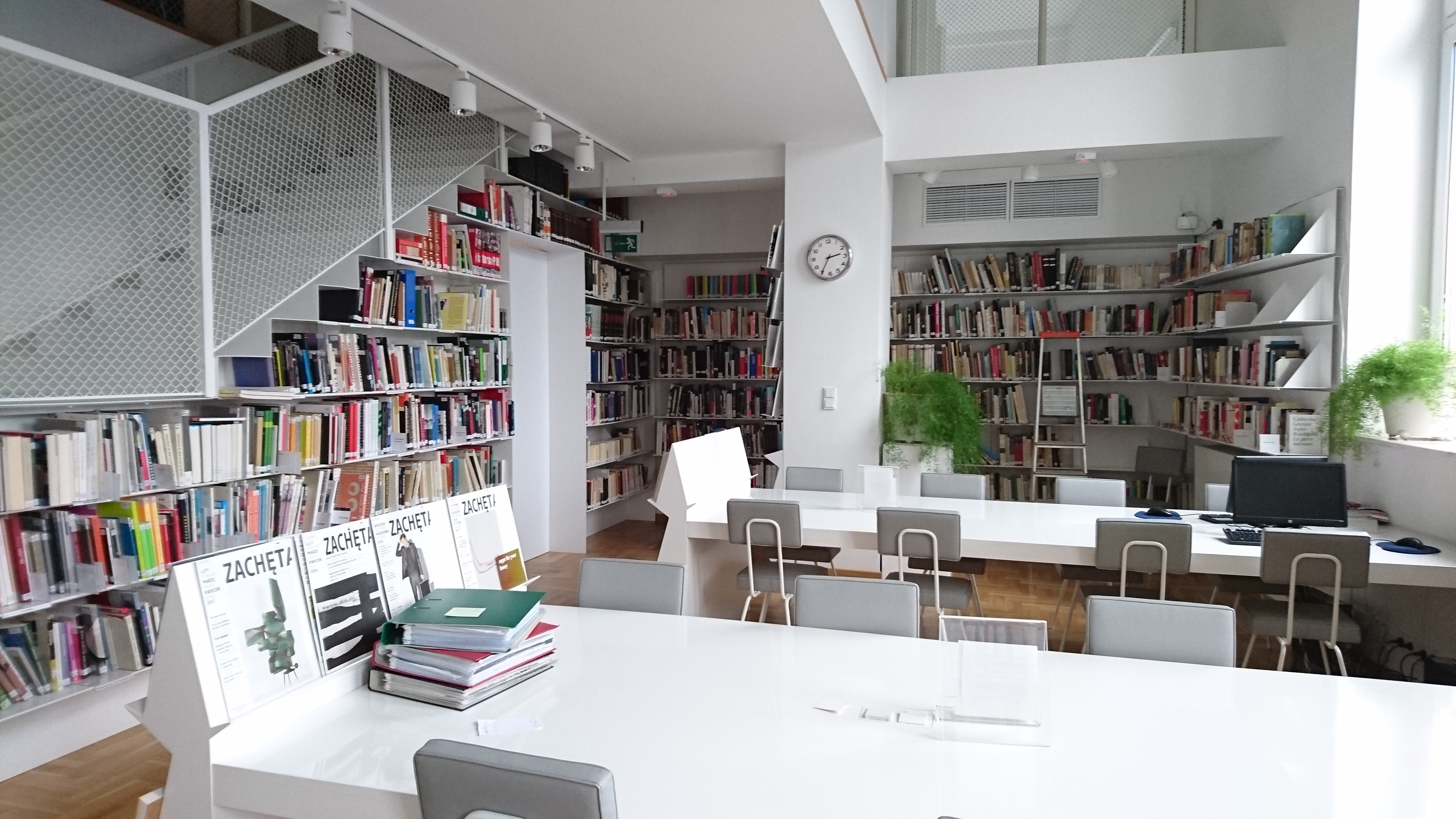 Art library in the Zachęta - National Gallery of Art (2017)